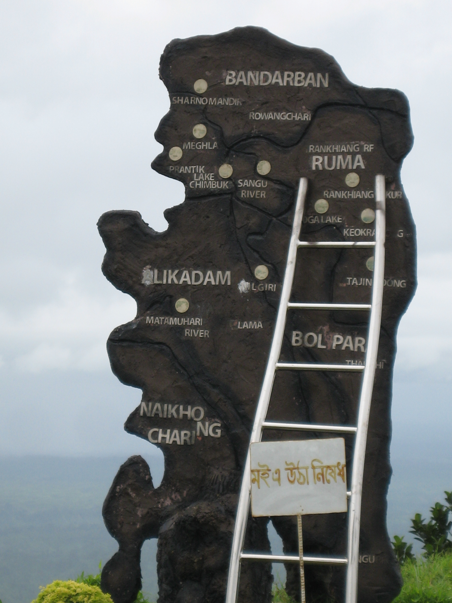 nilgiri_army camp